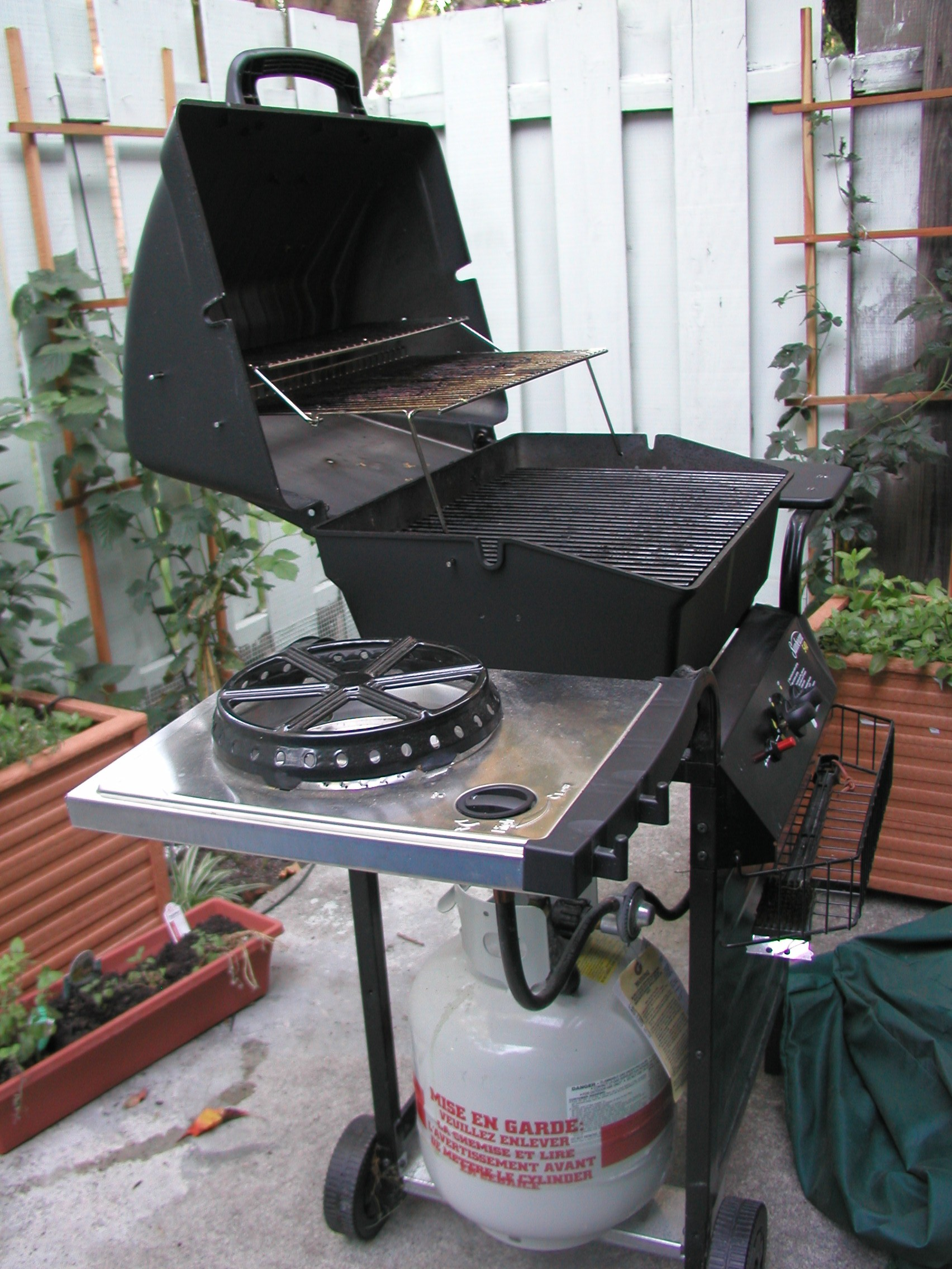 A photo of a propane gas grill.